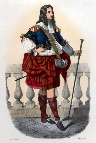 "Robertson". A plate illustrated by R. R. McIan, from James Logan's The Clans of the Scottish Highlands, published in 1845.